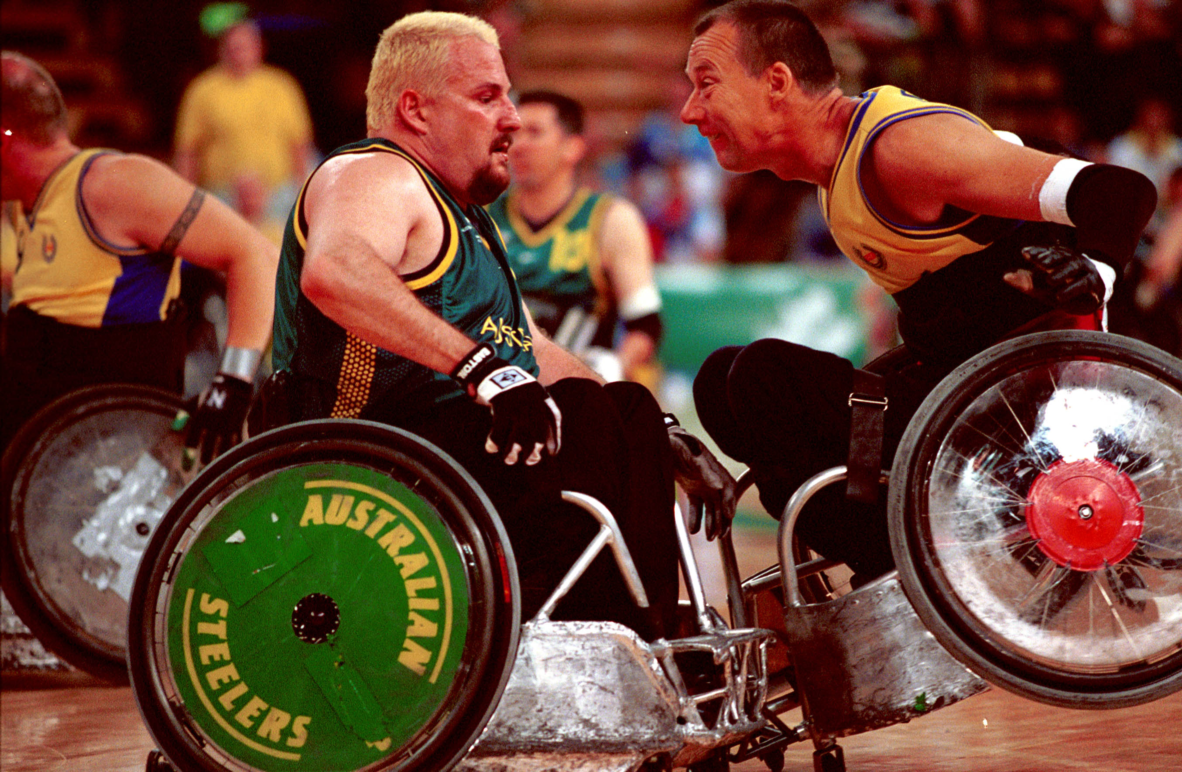 Australian wheelchair rugby "Steelers" player George Hucks gets shunted by an opponent during their match against Sweden at the 2000 Sydney Paralympic Games